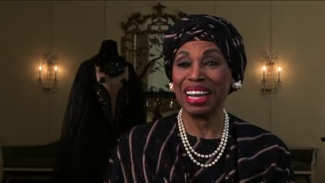 This file is a screencap of the NEA (National Endowment for the Arts) Opera Honors interview with legendary operatic soprano Leontyne Price. The NEA is an independent agency of the U.S. Government established by Congress in 1965 as an independent agency of the federal government "supporting artists and arts organizations and bringing the arts to all Americans." The file falls under CC0 1.0 Universal (CC0 1.0) Public Domain Dedication and may be copied, modified, and distributed, even for commercial purposes, all without asking permission.